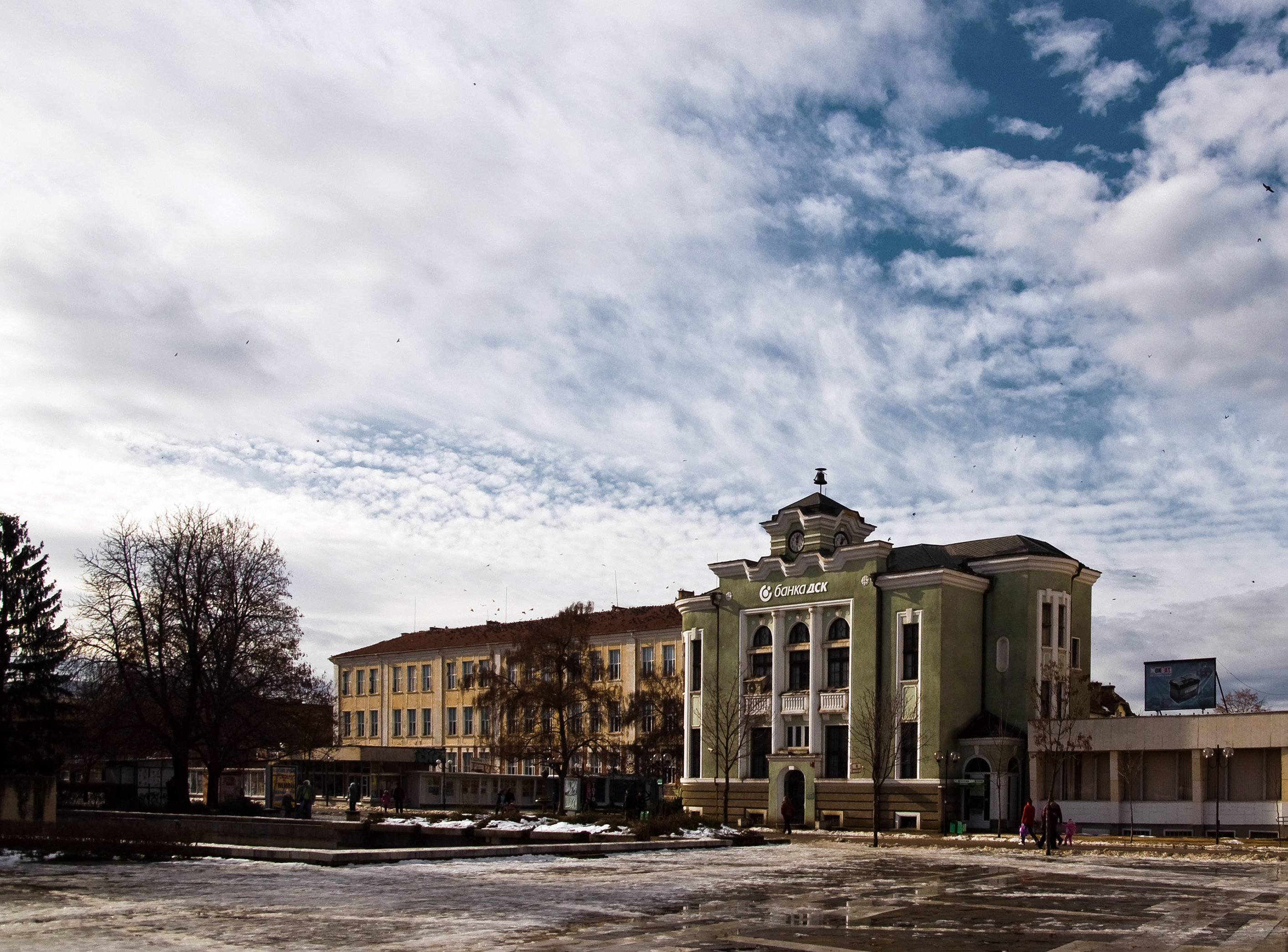 The main square in Targovishte, Bulgaria.